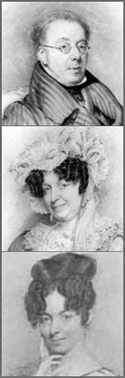 The parents and sister of Benjamin Disraeli